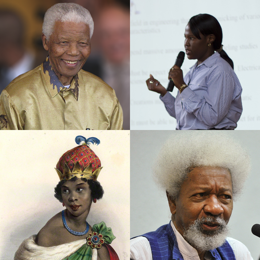 Nelson Mandela South African politician, Patience Mthunzi South African Scientist, Ana Nzingha Queen of Ndongo and Matamba (present day Angola), Wole Soyinka writter Literature Nobel Prize 1986